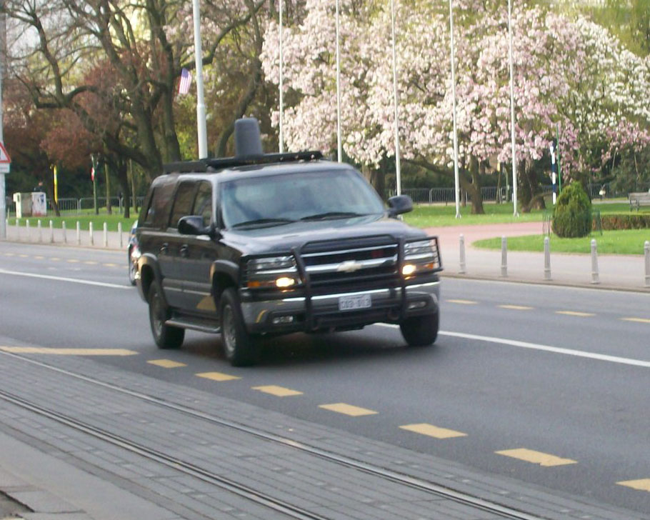 Bush's motorcade in Zagreb